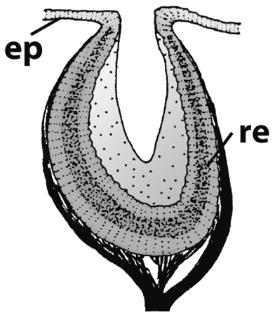 Eye cup of Pleurotomaria sp. ep = epidermis; re = retina.